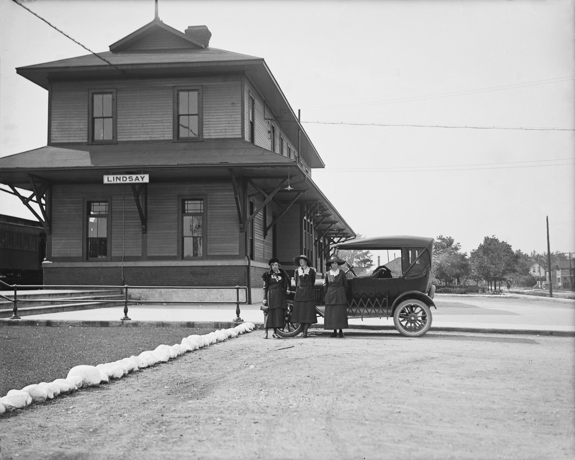 Lindsay railway station, Ontario, Canada, in 1921.